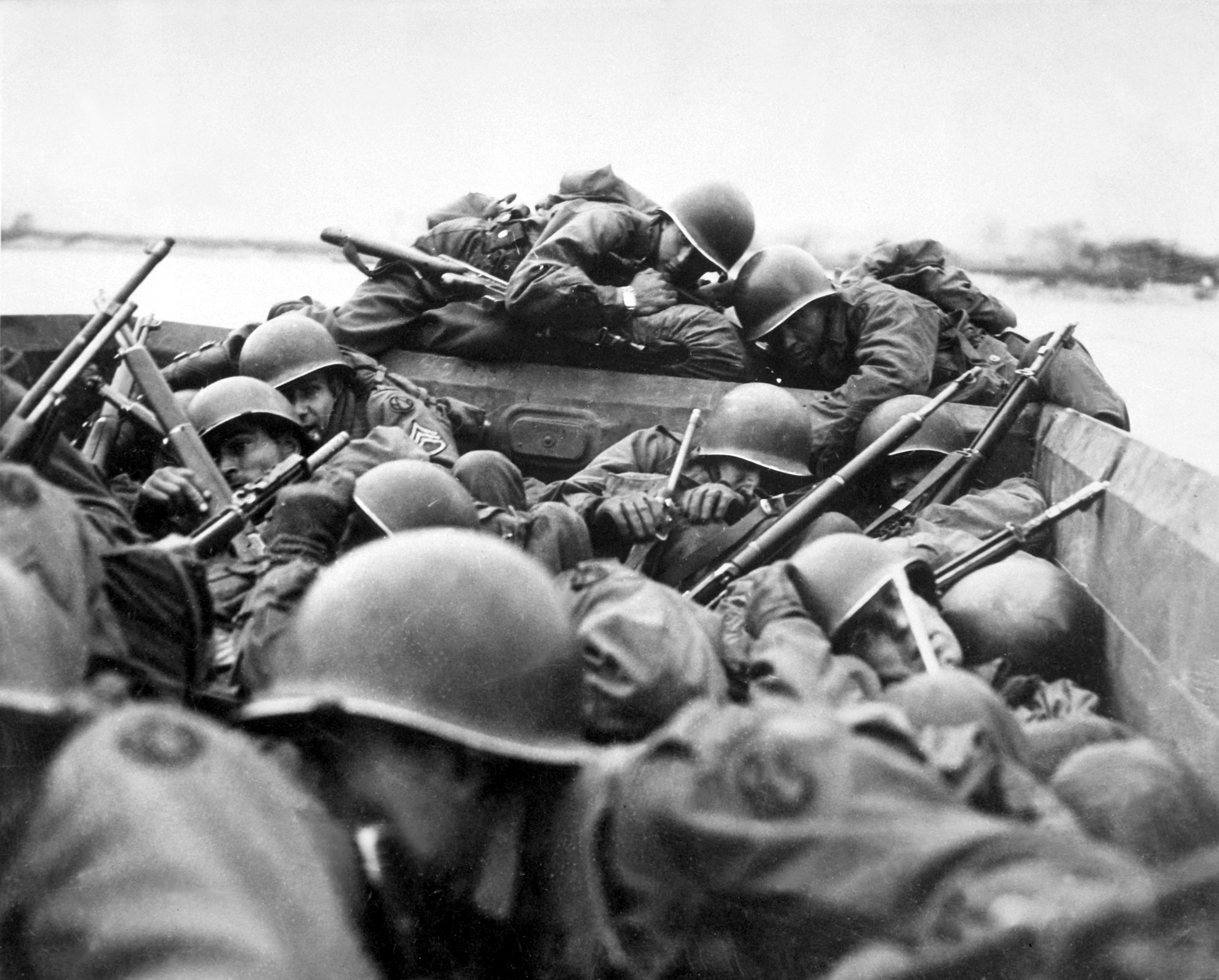 "I drew an assault boat to cross in - just my luck. We all tried to crawl under each other because the lead was flying around like hail." Crossing the Rhine under enemy fire at St. Goar.